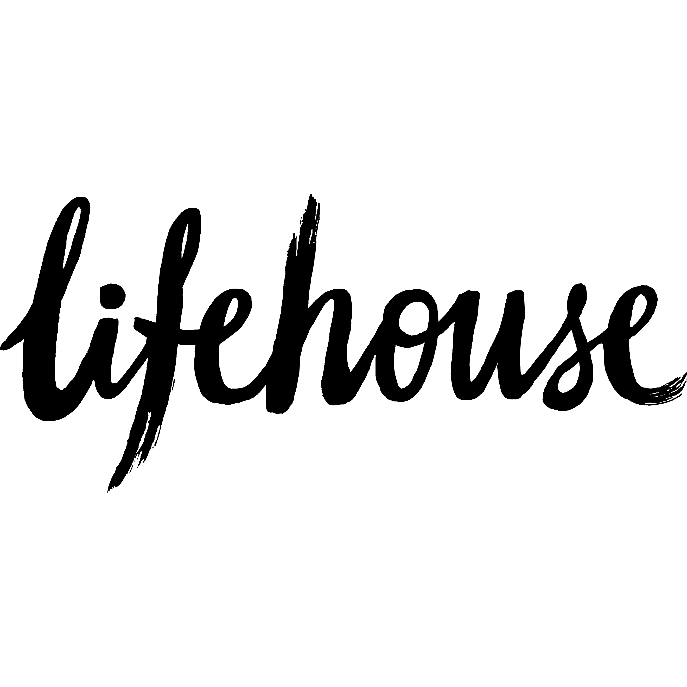 Lifehouse International Church Logo